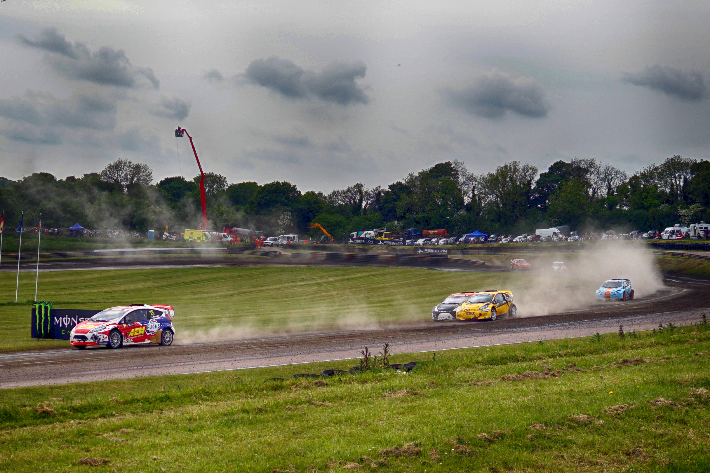 Action from the 2016 FIA WorldRX Rallycross Championship round at GB race track, Lydden Hill. A great spectator motorsport!